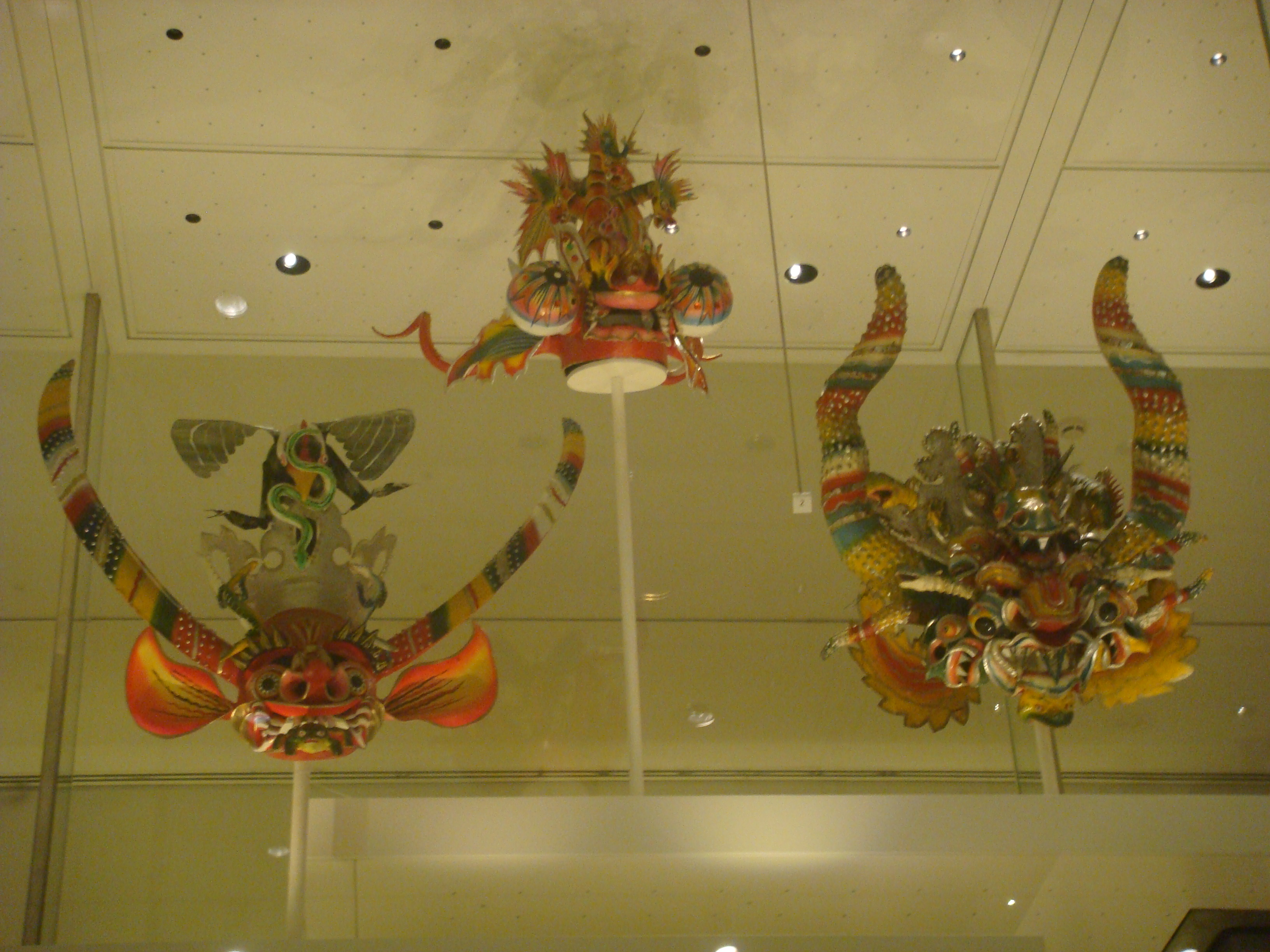 Masks of the Carnival of Oruro in the British Museum.